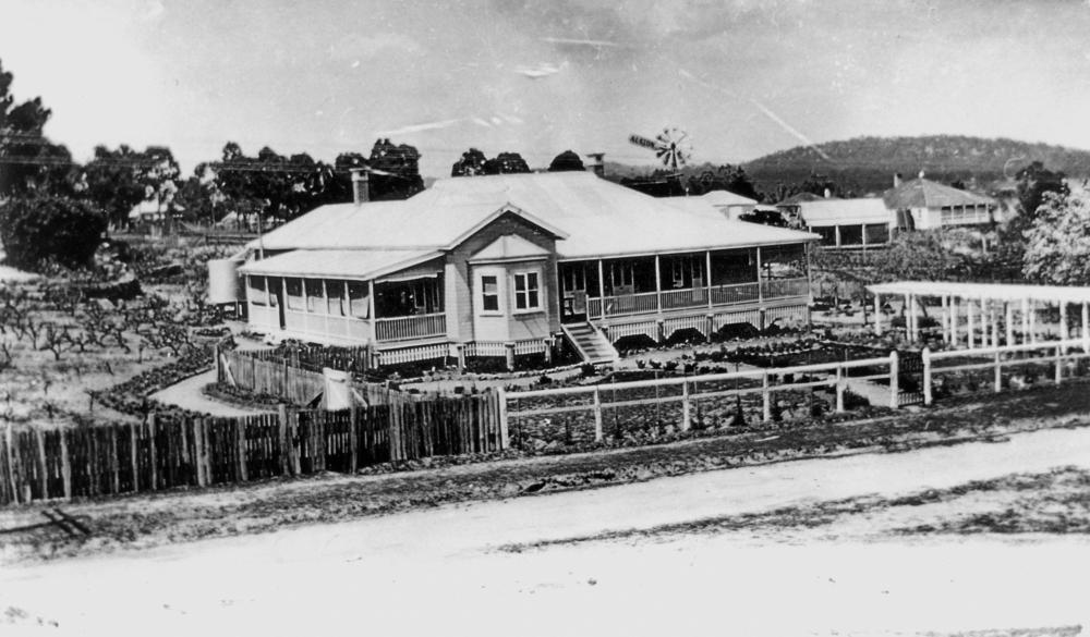 House known as El Arish at Stanthorpe, ca. 1920. This was the residence of the parents of Charles Chauvel in Stanthorpe. The house is a large, Queenslander style construction with wide verandahs and bay windows in the front. A rail and wire fence with some pickets surround the house.